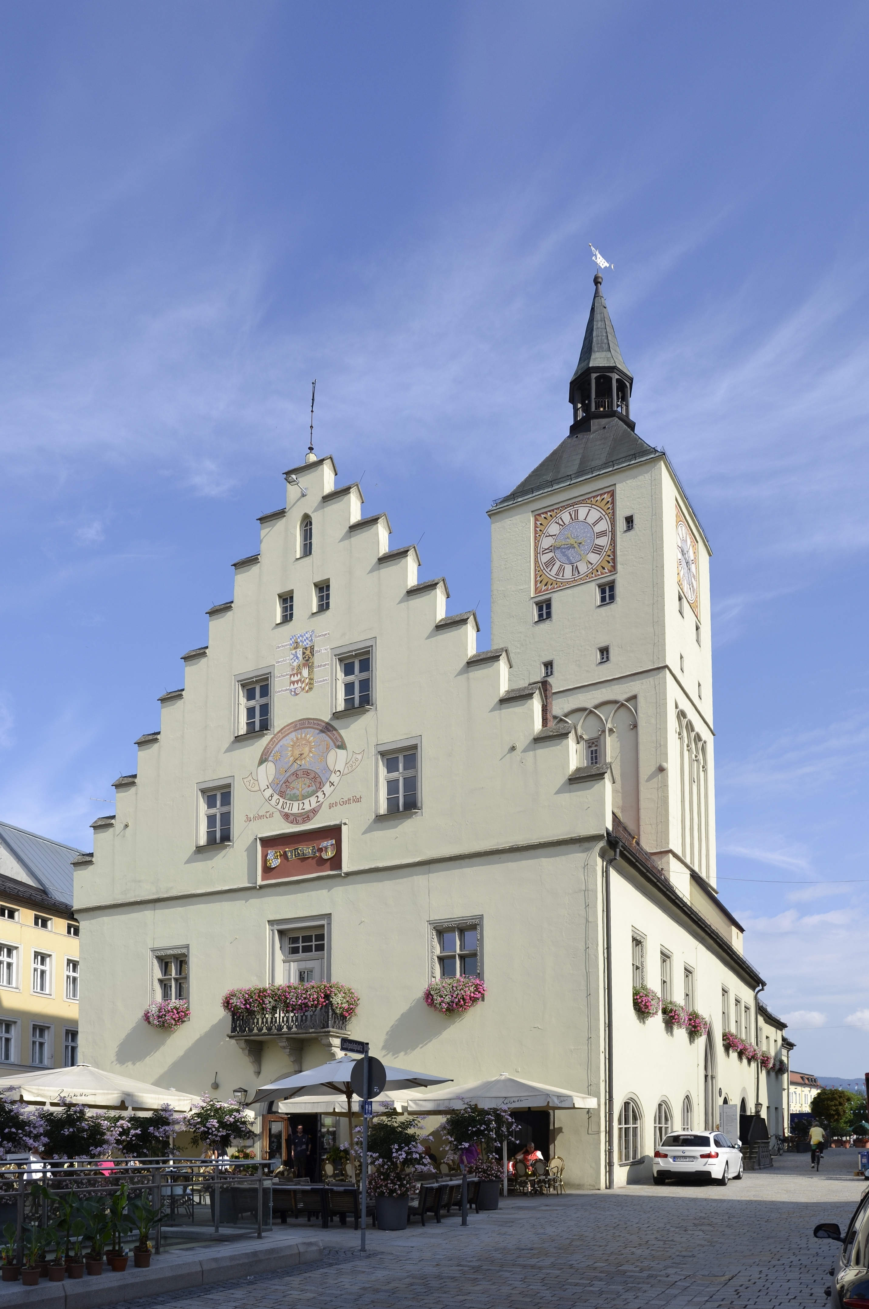 The Altes Rathaus (Engl.: "old town hall") of Deggendorf, Bavaria.